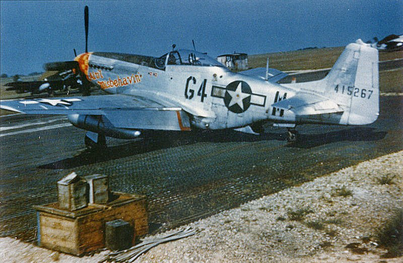 P-51K 44-15267 of Lieutenant Jessie R. Frey 362nd Fighter Squadron, 357th Fighter Group shows the "uncuffed" Aeroproducts propeller unit. This has the late-war AN/APS 13 rear-warning radar (the four horizontal antennae can just be seen on the side of the tailfin)and a formation light in the centre of the fuselage star.